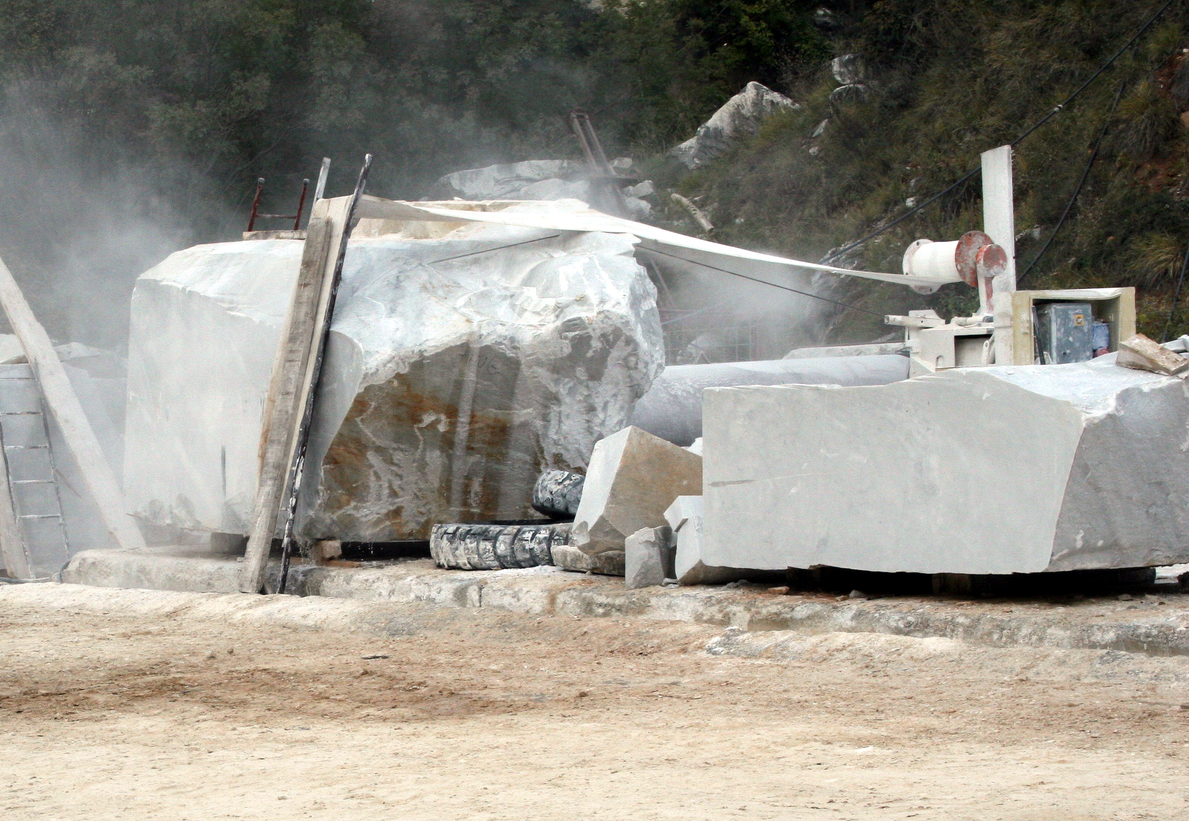 Retouched version of Bild:Seilsäge1.jpg, which has the following description